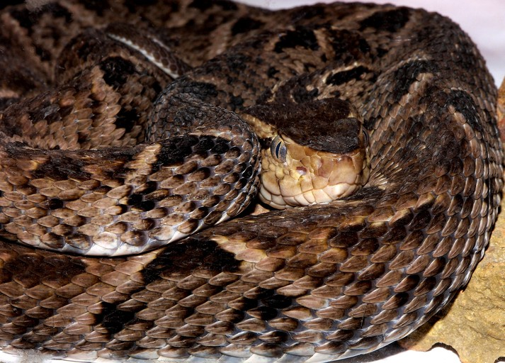 Bothrops asper